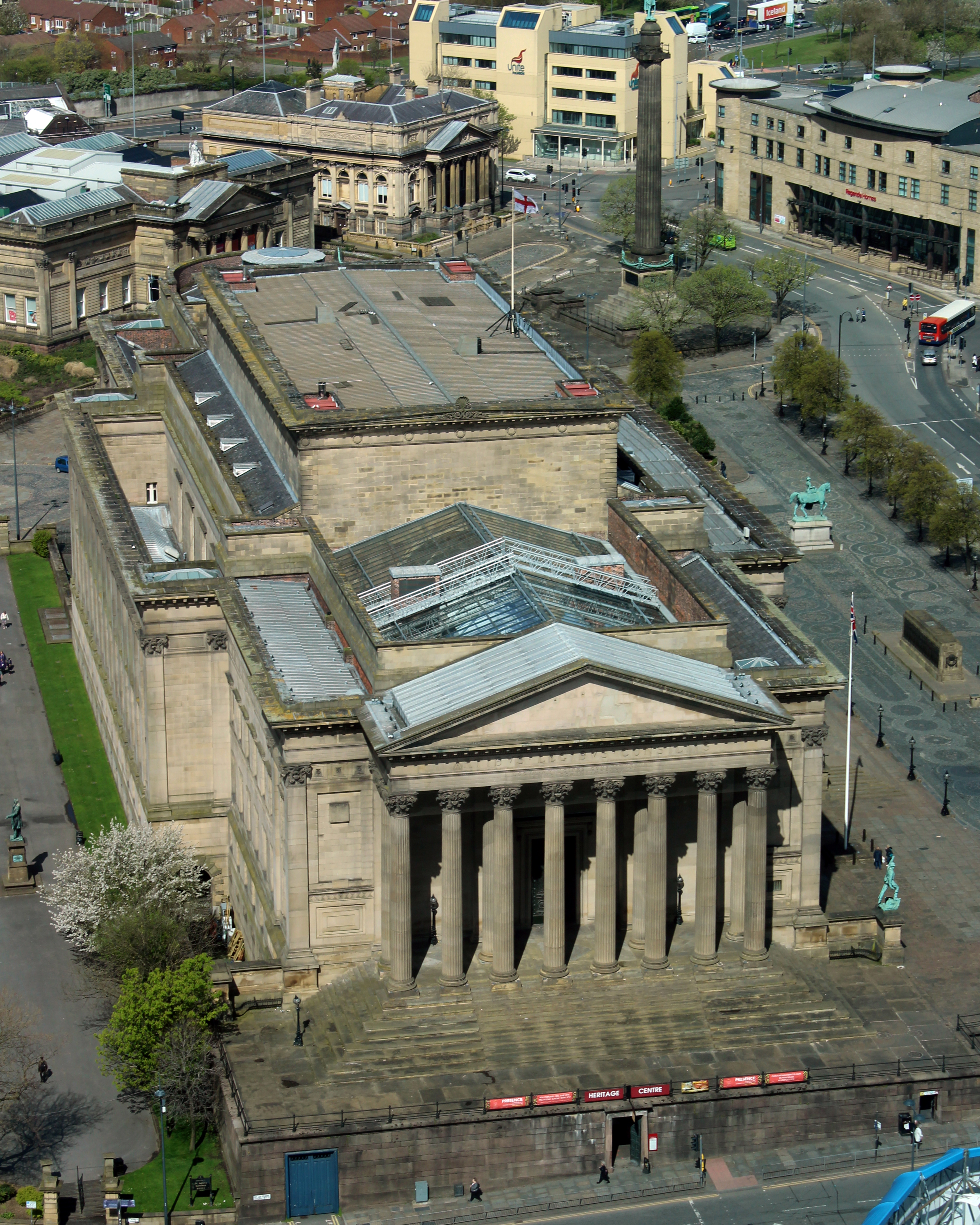 View NNW from Radio City Tower over St George's Hall. to the rear can be seen the Walker Art Gallery, County Sessions House and Wellington's Column in Liverpool.